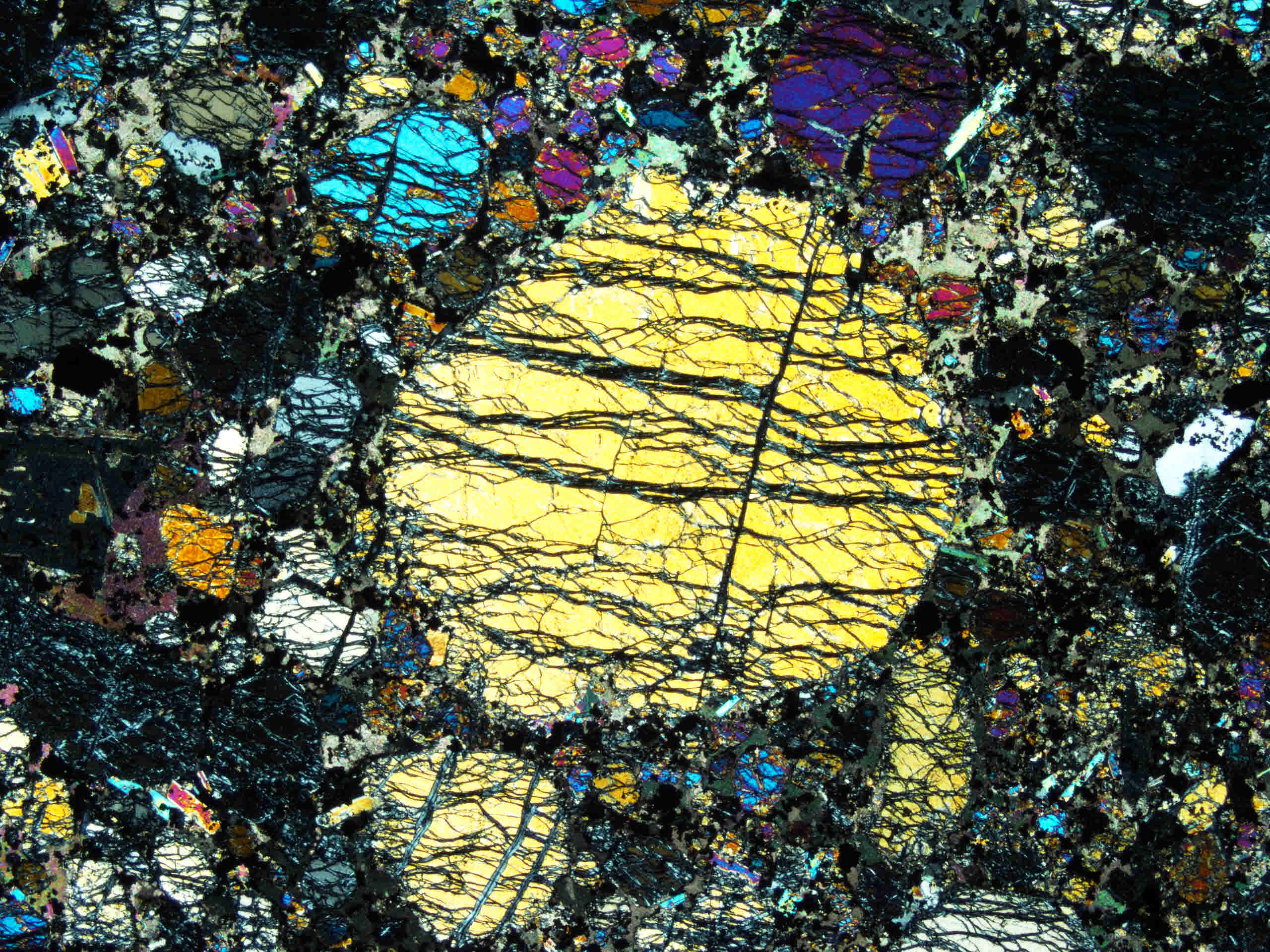 This picture is taken with a polarizing microscope. Here is the thin section foidolite (rock). In the foreground is a large yellow sodium pyroxene grain surrounded by fine grains.